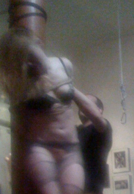 @madisonyoung being tied up by bird people while a clip of the movie "Birds" loops in the background.